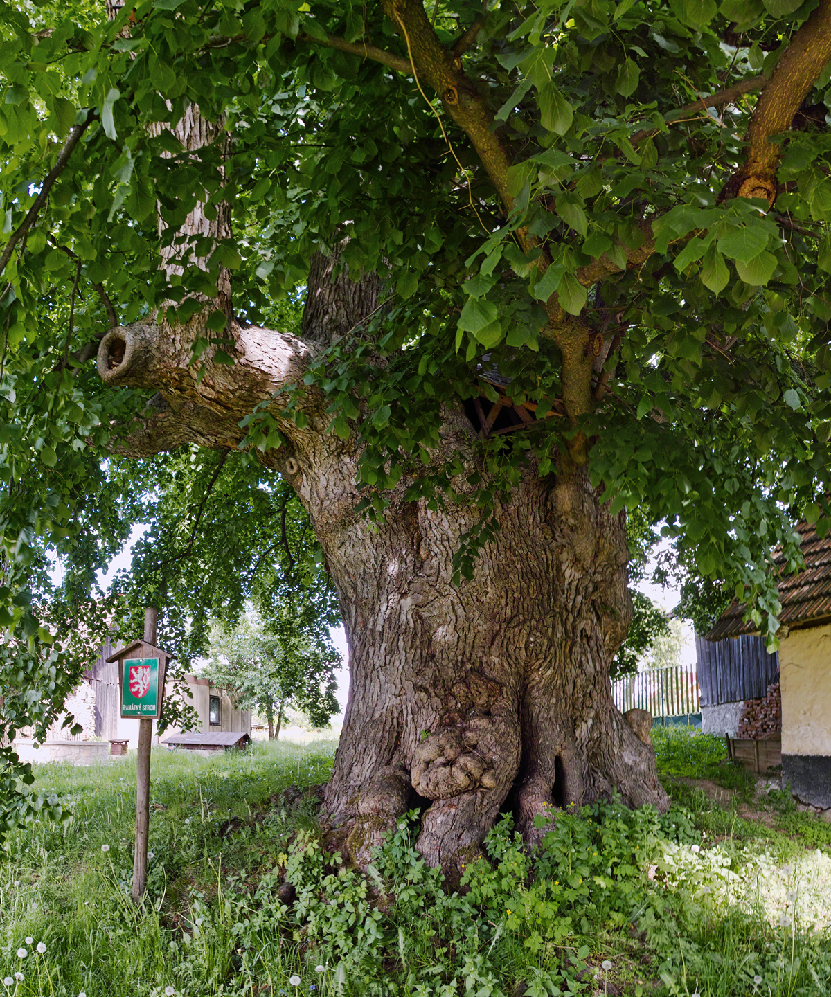 Holub's lime tree, famous tree in Vlasenice near Tabor, Czech Republic